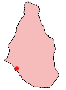 Plymouth, Montserrat Location Map; created with the GIMP. Made by User:Acntx.